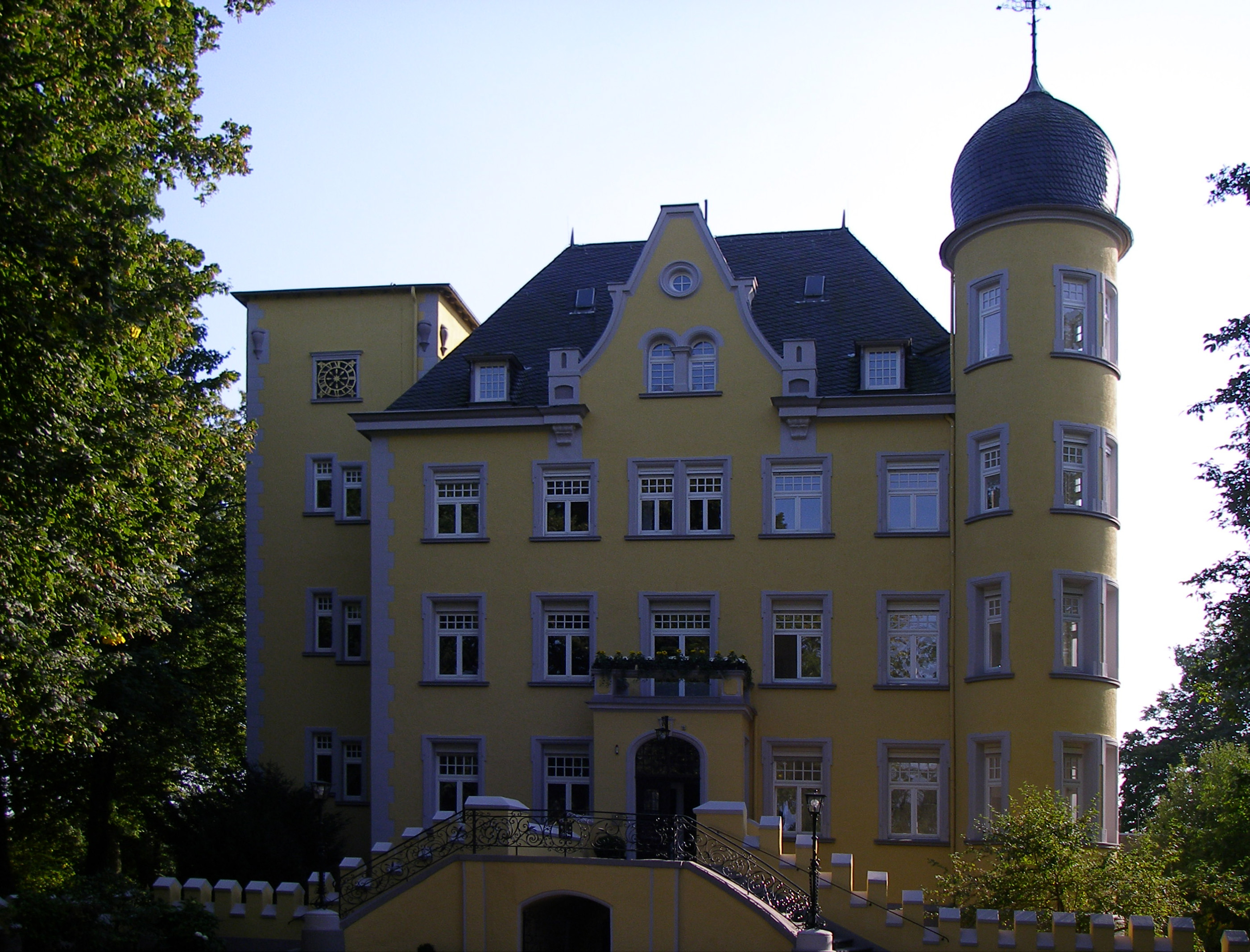 House Broich, Willich Anrath, Germany